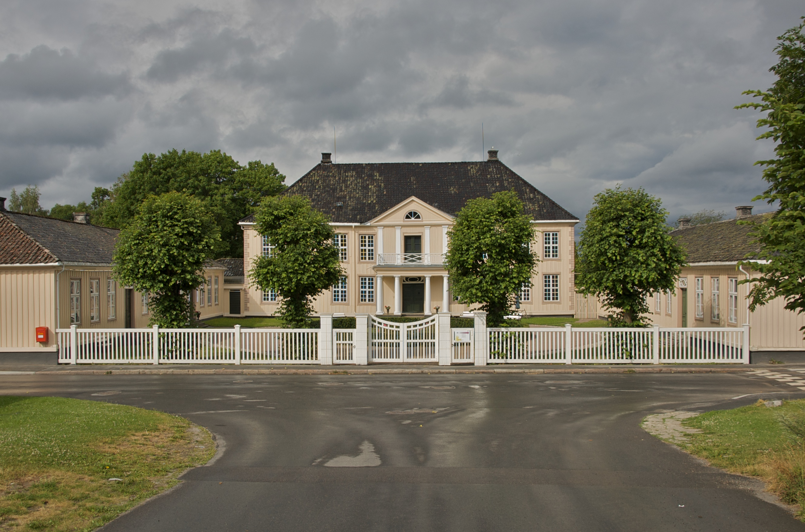 Southern Brekke farm in Skien, Norway. Main building from ca. 1780.